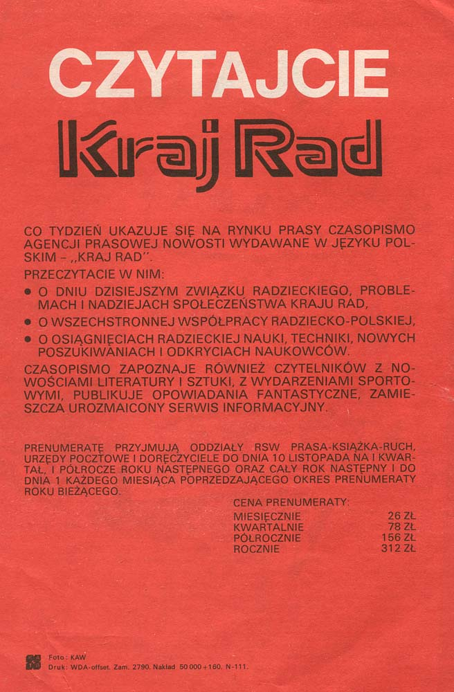 Leaflet of the "Kraj Rad" weekly journal on Soviet Union in Poland